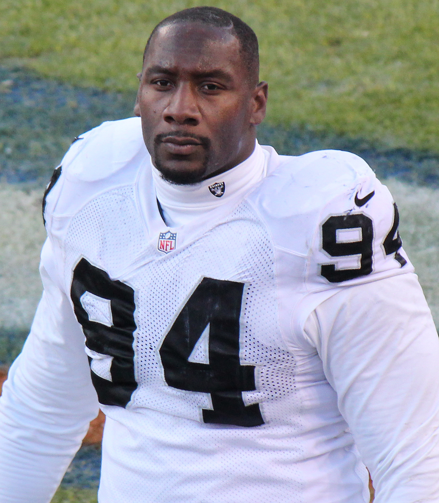 Antonio Smith, a player with the National Football League.